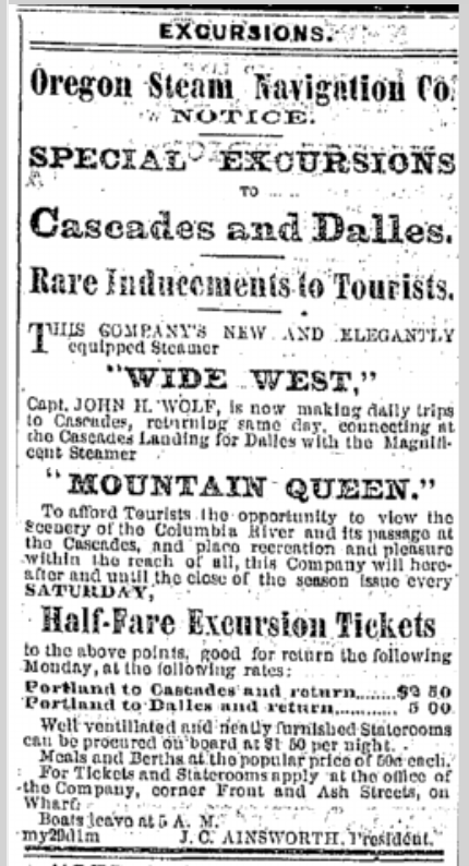 Advertisement for steamers of the Oregon Steam Navigation company, published in the Morning Oregonian June 1, 1878